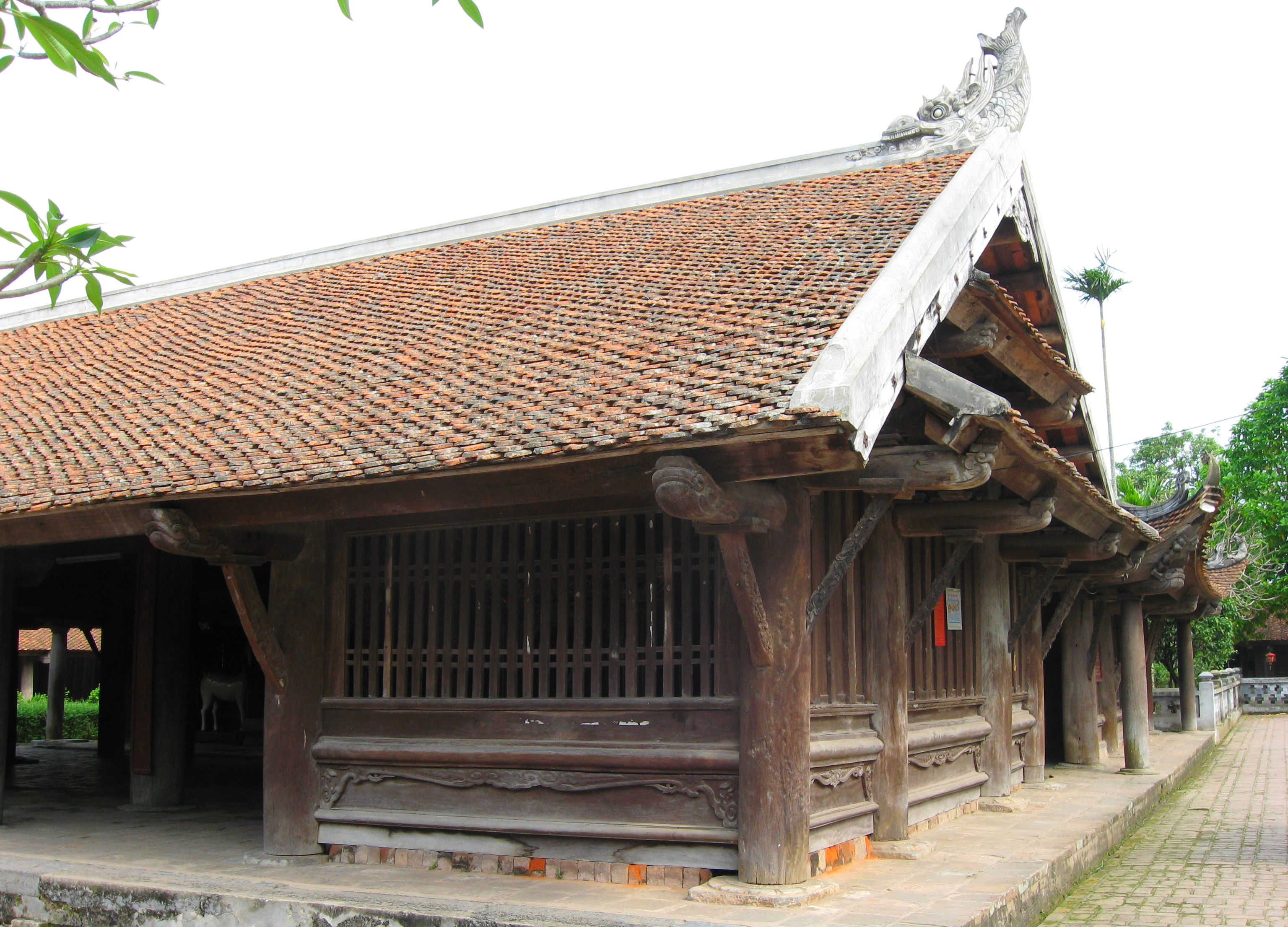 Keo Pagoda